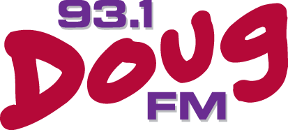 Former logo of the radio station WDRQ used between 2005 and 2013.